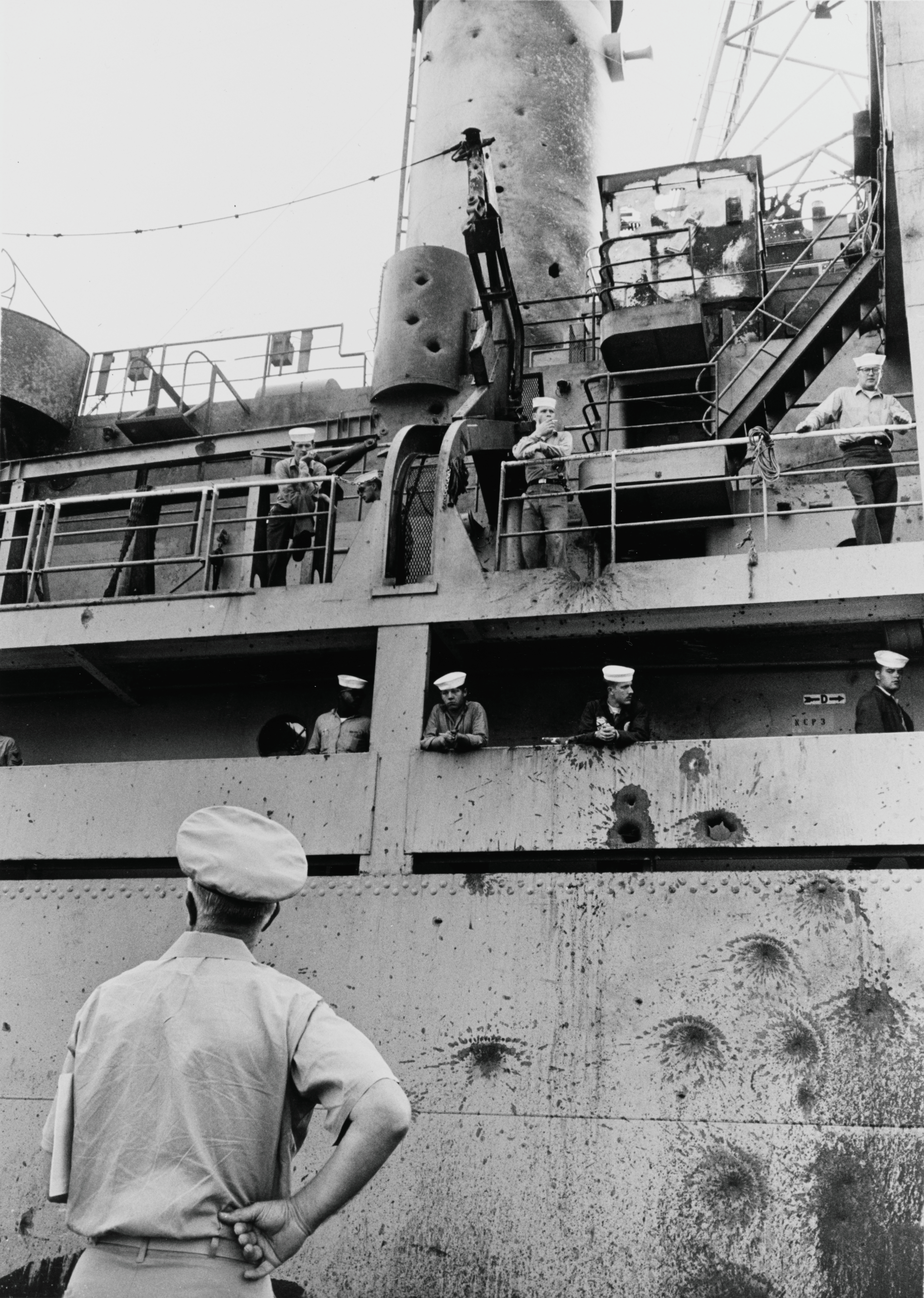 Damaged USS Liberty / US Navy photo Caption bar formerly at top read: Photo # NH 97478 Damage to USS Liberty, June 1967